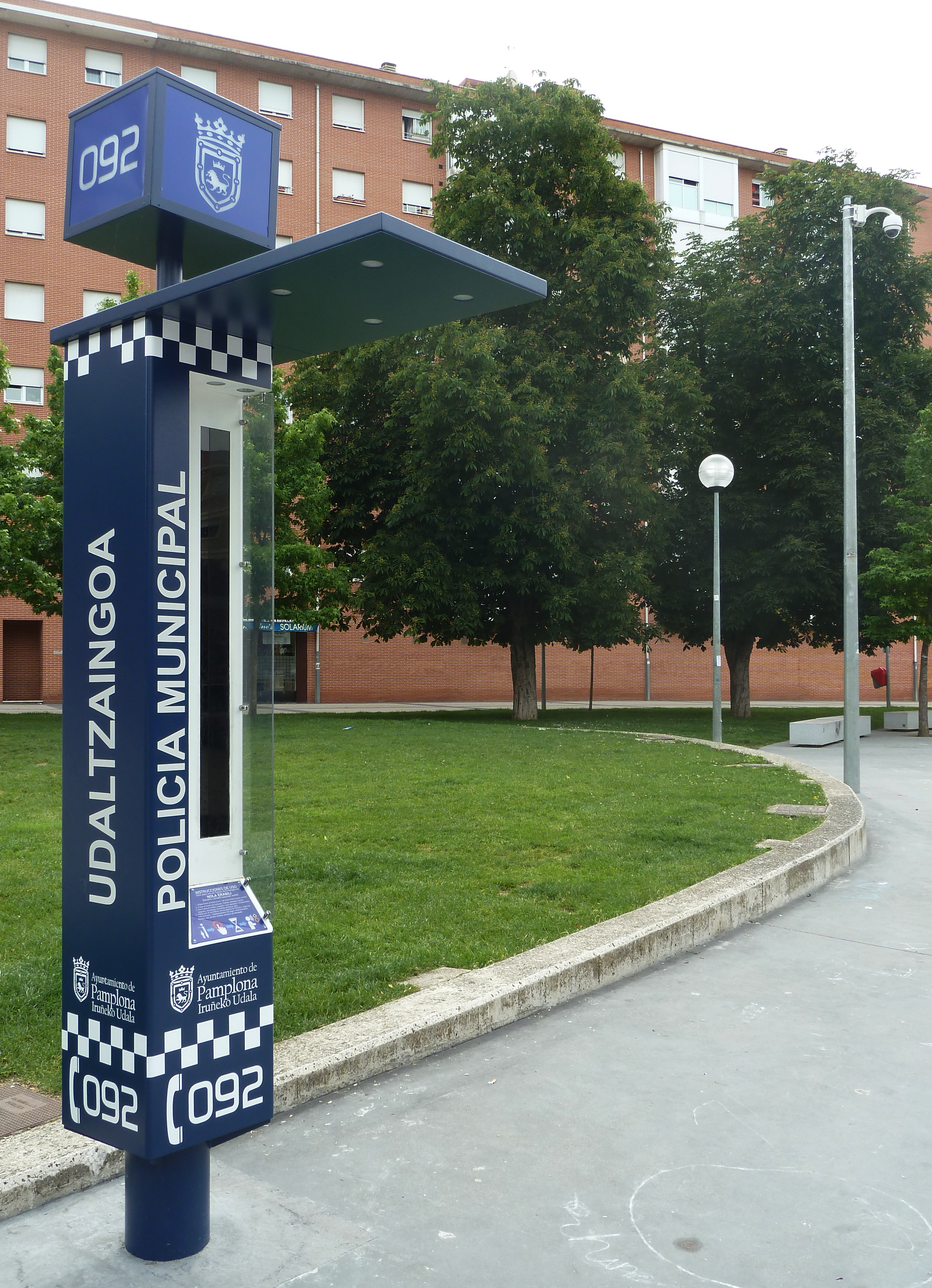 In February 2013 a "virtual police agent" was installed in Gortari Park, San Jorge/Sanduzelai (Pamplona/Iruña). This is a kiosk with a push button, an intercom and a ergonomic camera that adapts to the claimant citizen's height. Near the kiosk there is other panoramic camera video surveillance to have a broader view of the area. Once implemented the system, both on the petition of a citizen as because of the an agent's initiative, the cameras watch the zone to take appropriate decisions and react more informed.